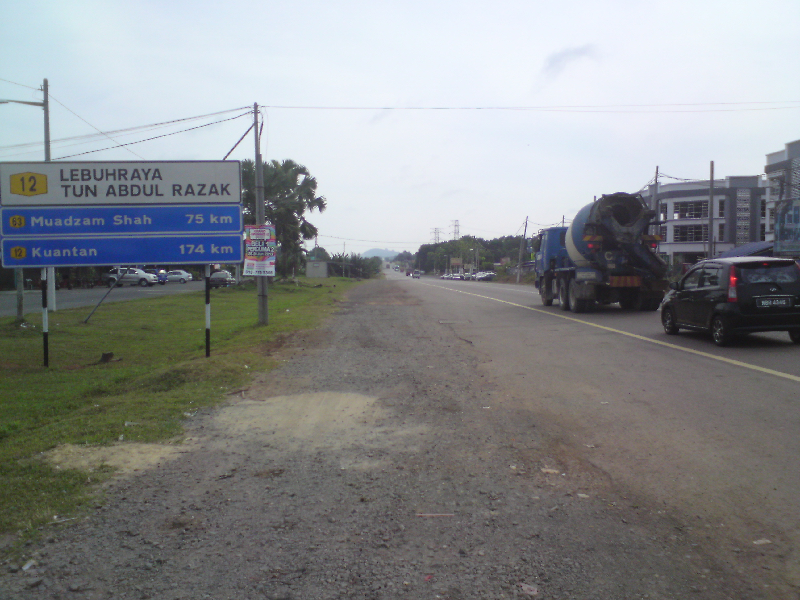 The scene of Tun Razak Highway at Segamat, Johor.